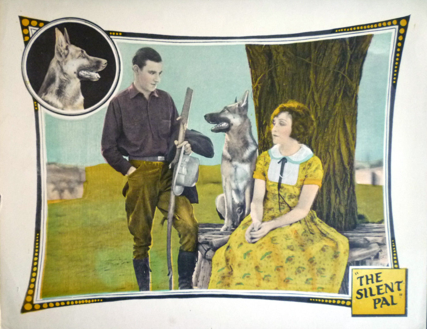 Lobby card for the 1925 film The Silent Pal.